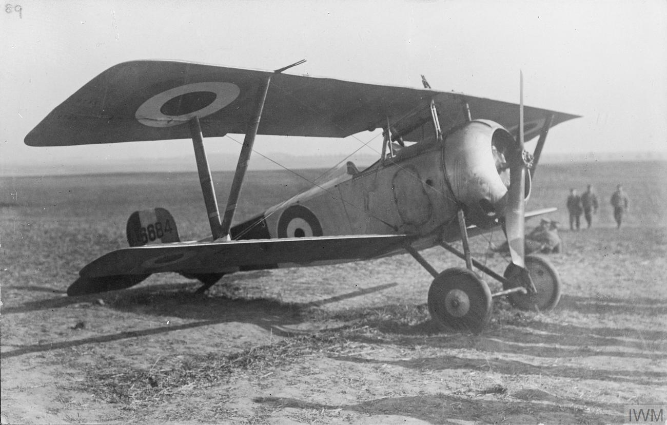 Nieuport 17 C1, single-seat scout. Flown by many British and French airmen on the Western Front during 1916.